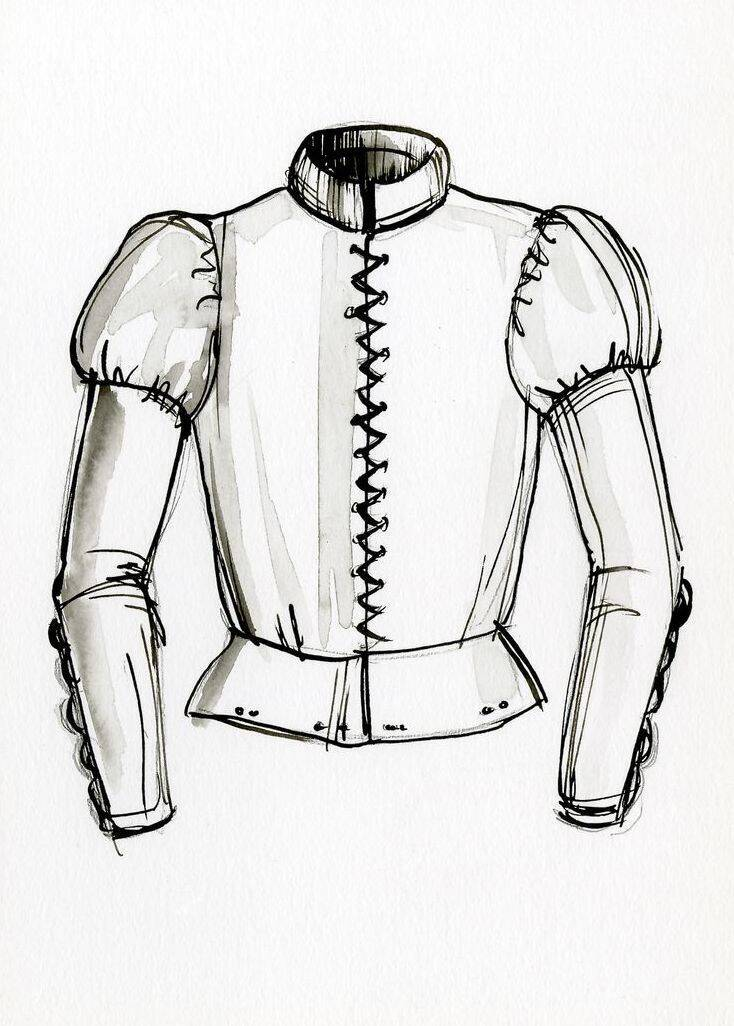 The description of the concept in this drawing is: Close-fitting waist-length or hip-length garments with or without sleeves worn by men from the 15th to the 17th century and for similar garments reinforced by mail and worn under armor. Also refers to sleeved, hip-length garments worn as part of military uniforms by the Scottish units of the British army after 1855 (AAT)